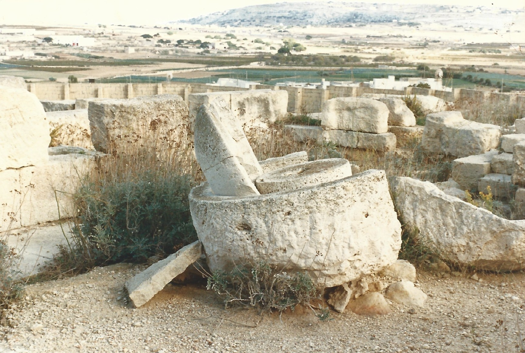 Olive pipper This media is about Maltese cultural property with inventory number 00014.